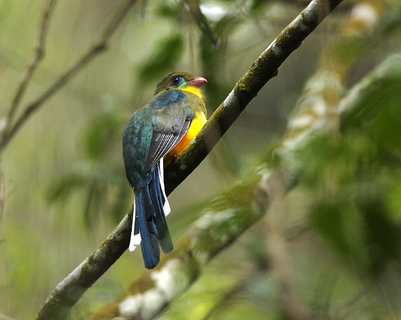 Javan Trogon Apalharpactes reinwardtii reinwardtii (syn. Harpactes reinwardtii reinwardtii) Indonesian: Kasumba ekor biru, Luntur gunung Location : Gunong Gede, Java, Indonesia